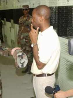 BBC interviews Guantanamo's chief guard. Original caption: "Col. Cannon, former JDOG commander, conducts an interview with the British Broadcasting Corporation (BBC). Cannon told the BBC (and potentially 68 million viewers) that he 'considers it a privilege and honor to work with these people ... .'"